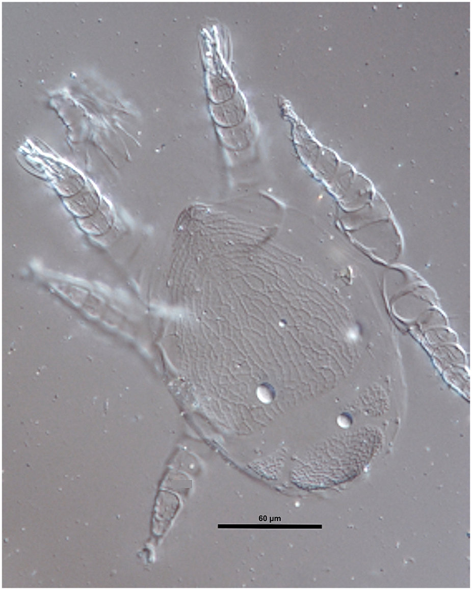 Dorsal view of a slide-mounted specimen (OSAL 0102204) found attached to a Paratrechina longicornis pupa. Magnification 400x, differential interference contrast illumination.